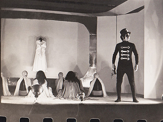 Encenação de "A Morta", de Oswald de Andrade, primeira peça apresentada no Forum da Cultura. (1972).